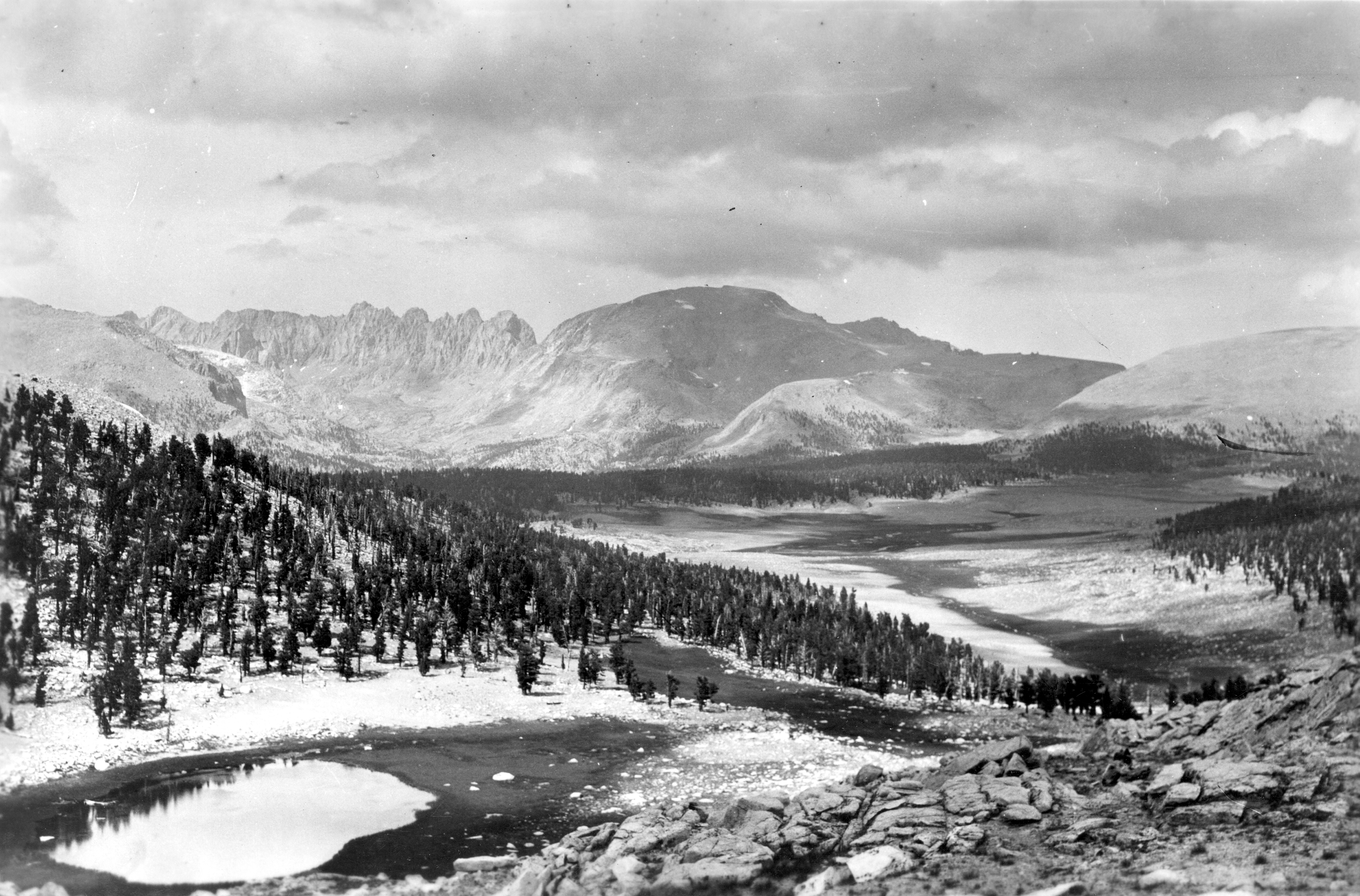 The Sierra Nevada - John Muir Wilderness, Sequoia National Park - California. Northeast from Boreal Plateau, overlooking the Siberian Outpost. In the distance is Mount LeConte. The nameless peak on the extreme left and Cirque Peak bear remnants of the Old Cirque Peak erosion surface. Mount Langley bears a large remnant of the still more ancient Whitney erosion surface. The vale with the pond (foreground) has been slightly modified by glacial action. Circa 1935. ID. Matthes, F.E. 1151 Sequoia National Park, California.